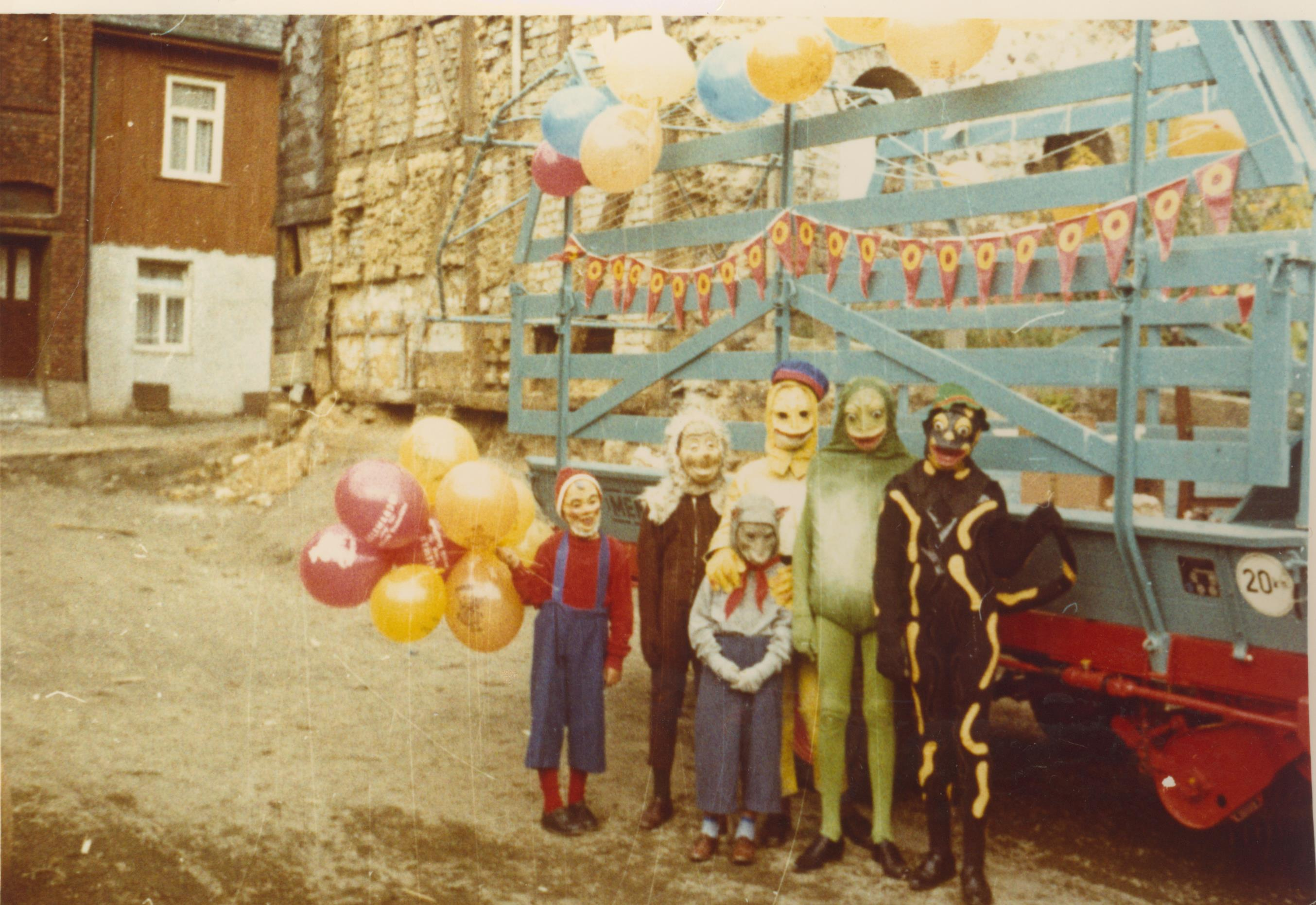 LURCHI is a character made for advertising SALAMANDER shoes for children. Ewald Schnug ( performing as LURCHI at a fair featuring shooting matches 1965 in Altenkirchen / Germany (first character from right)